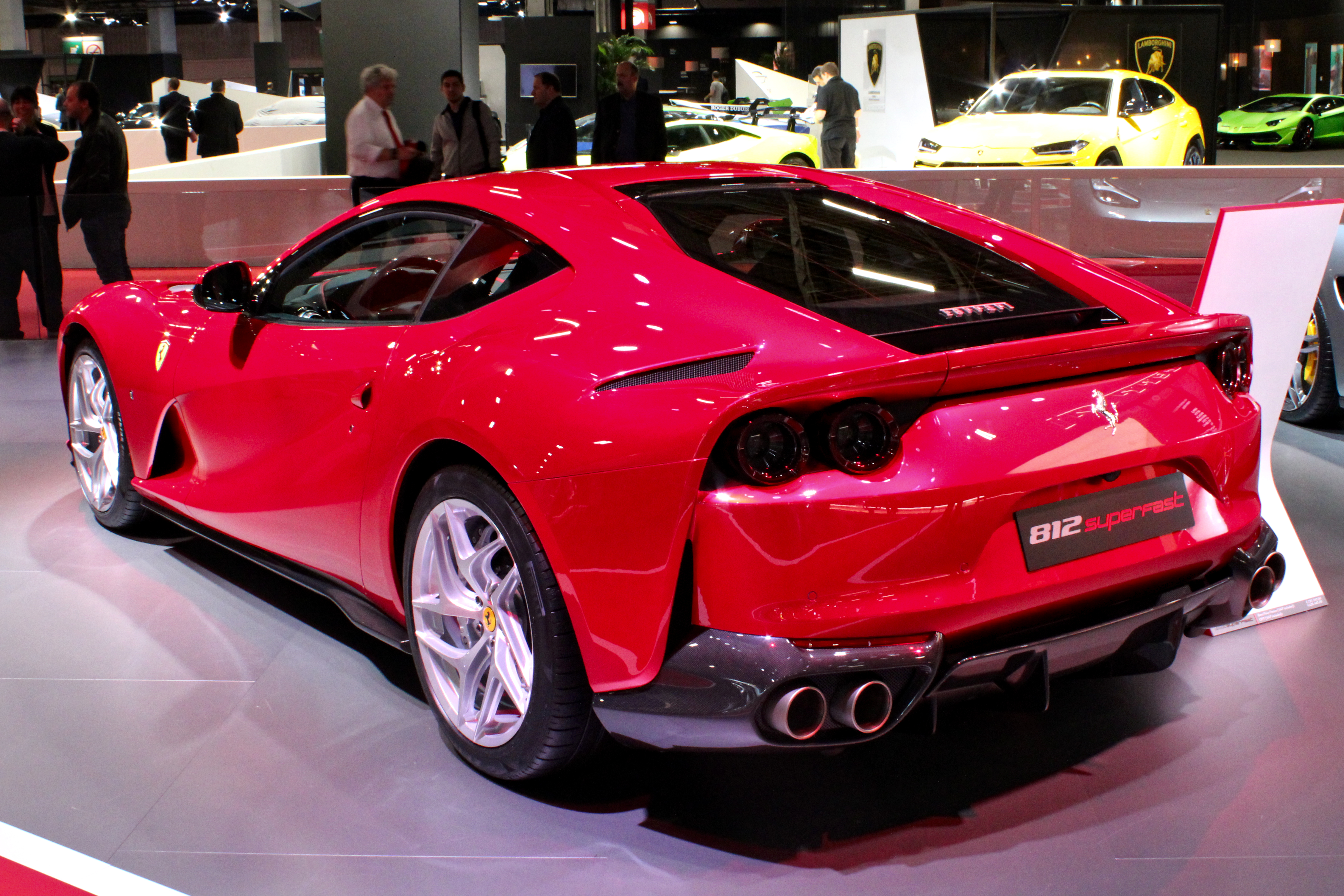 Ferrari 812 Superfast at Paris Motor Show 2018